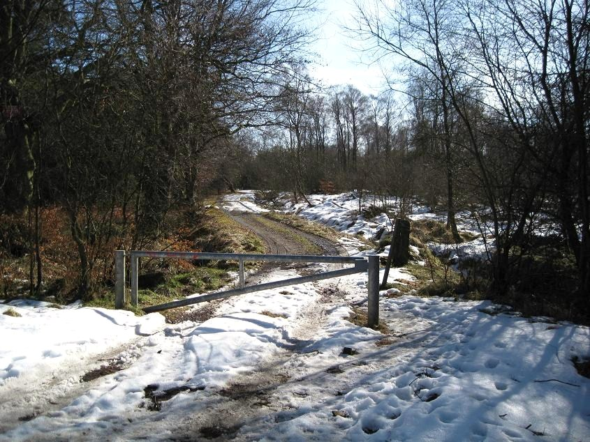 Track to Palacerigg Most people taking this track off the main Fannyside Road will be heading to some part of Palacerigg Country Park. The track leads to three or four other places including Abronhill, Glencryan and Wester Fannyside Loch.